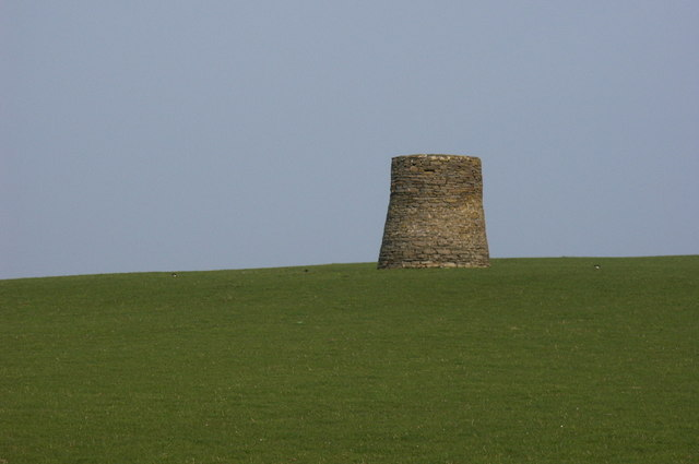 Ruined Windmill, Sanday Looking eastwards from the cemetery near Scar.